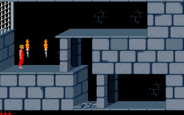 Screenshot from the video game (own work).